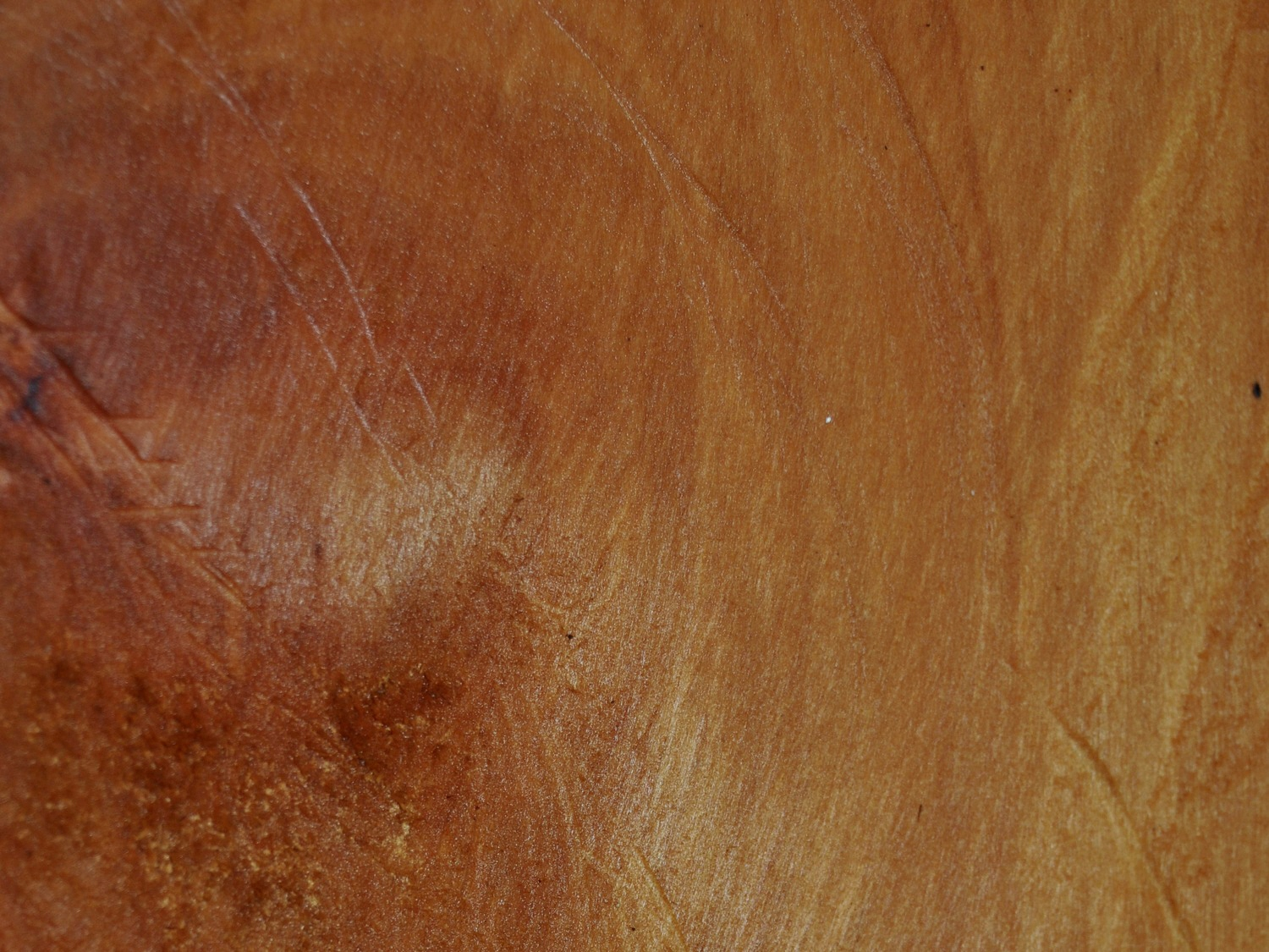 Schima wallichii, wood close-up. From Ketapang, West Kalimantan, Indonesia.